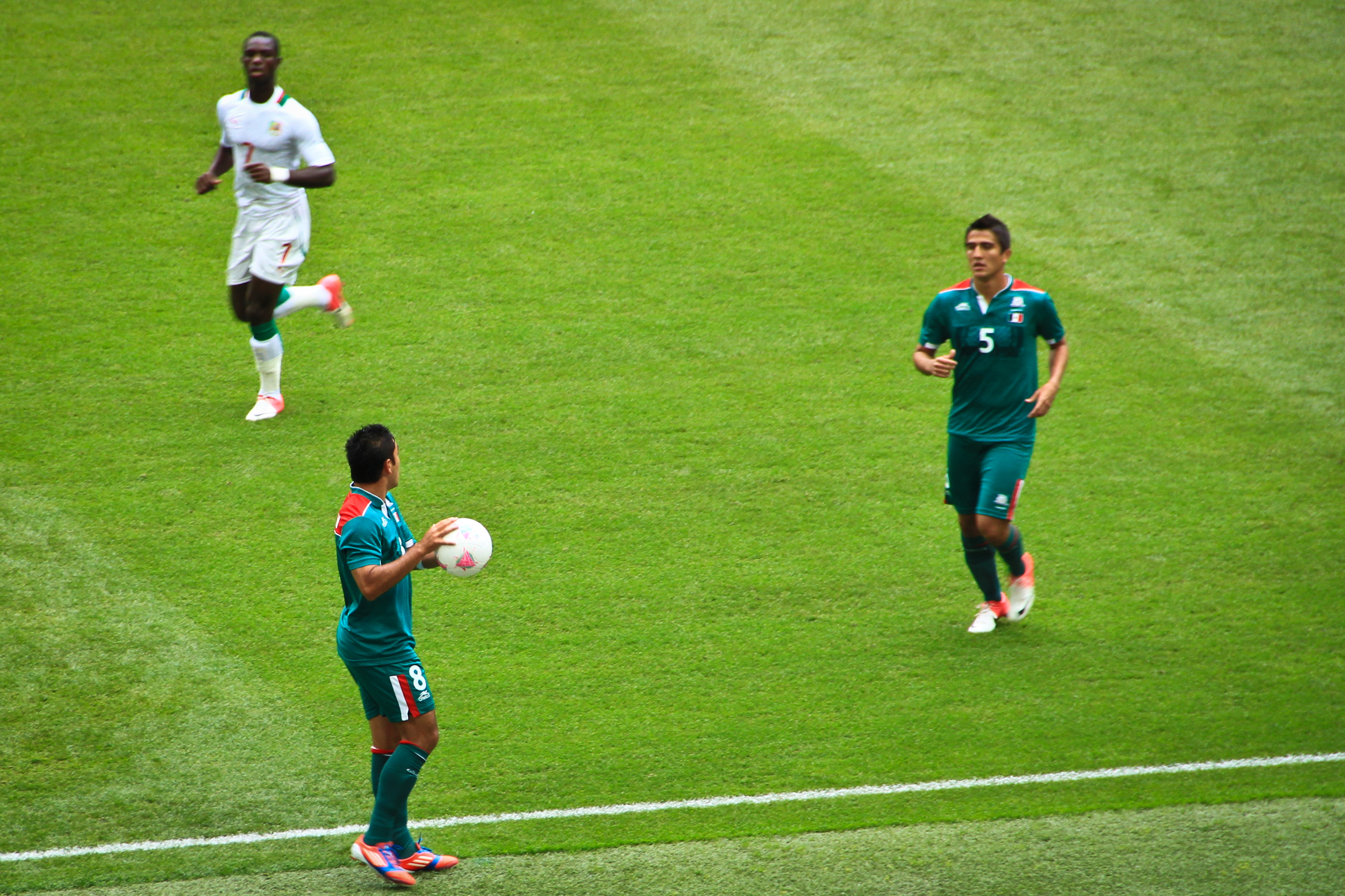 Mexico getting set to throw the ball in.